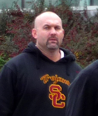 Passing Game Coordinator/Wide Receivers coach John Morton, on his way into the locker room before a 2008 USC Trojans football game against the Washington State Cougars in Pullman, Washington.